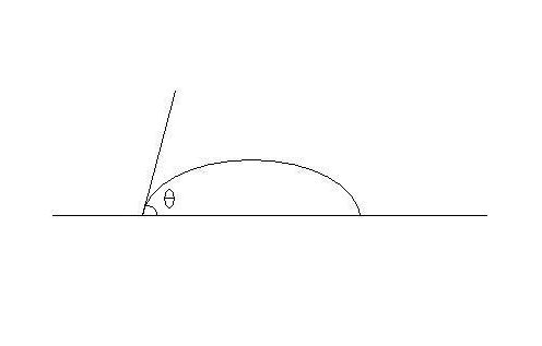 Schematic of Contact Angle